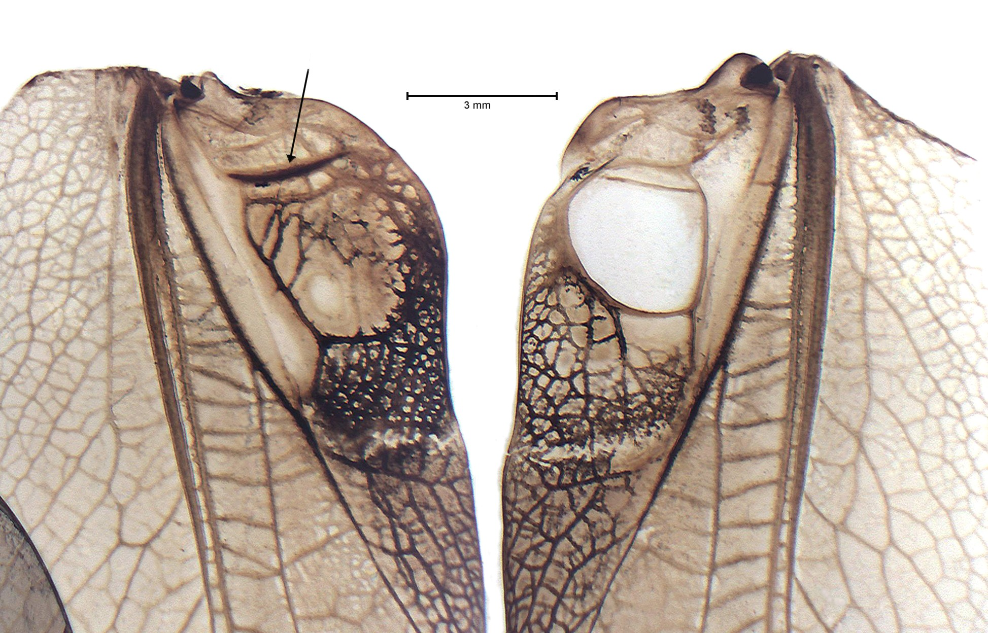 Basic part of the left and right forewing of an adult male demonstrating the stridulating organ. The arrow indicates the active file